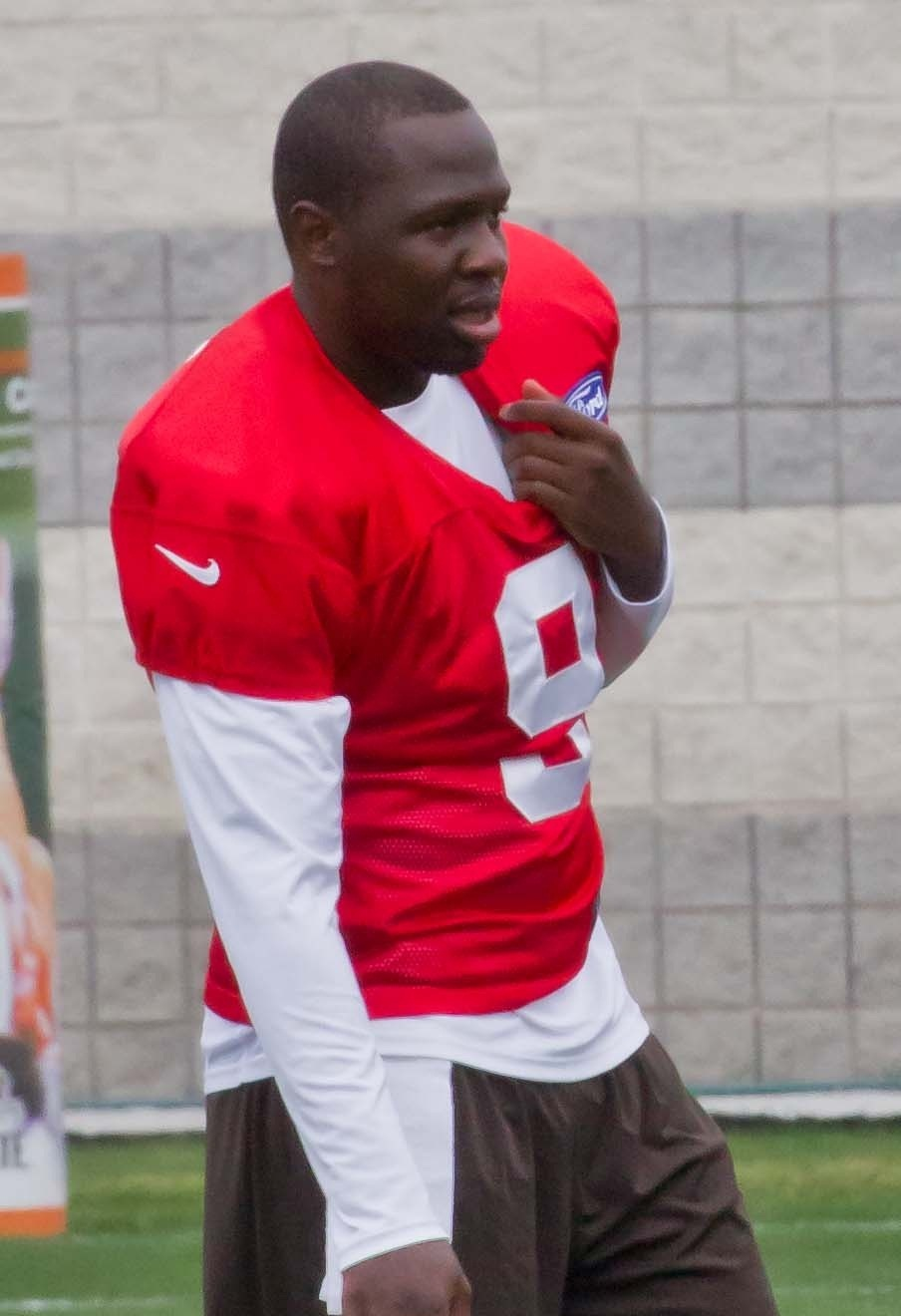 Thaddeus Lewis